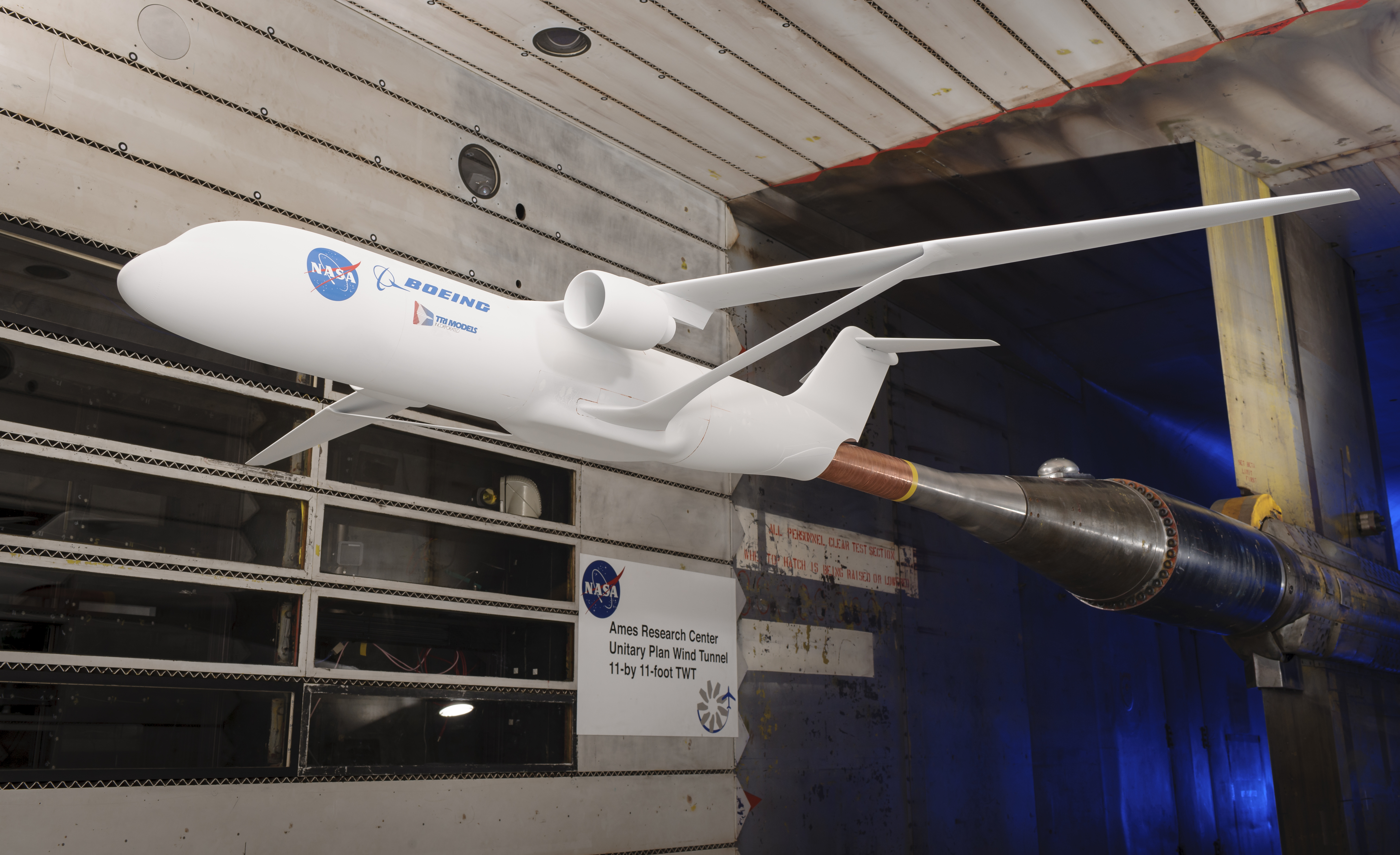 The Subsonic Ultra Green Aircraft Research (SUGAR) Project is a multiphase, collaborative research project conducted by NASA and Boeing Research and Technology. The research focuses on developing concepts that meet NASA’s ambitious N+3 Technology Goals for Noise, Emissions, and Performance. Last Updated: Aug. 7, 2017 Editor: Kimberly Aldenbrook